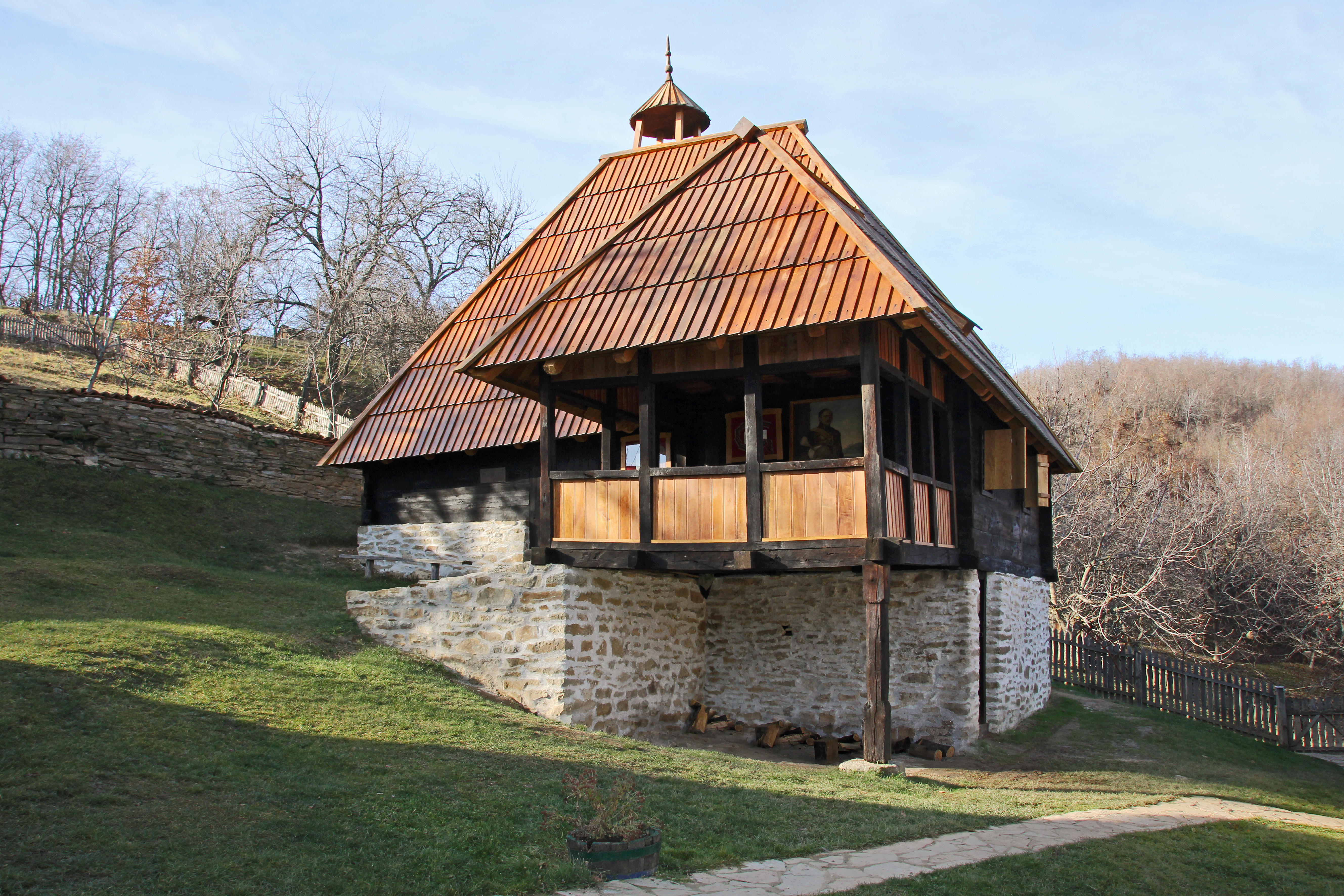 Milošev Konak is the residence of Serbian Prince Miloš Obrenović, which is located in Gornja Crnuća in the municipality of Gornji Milanovac, Serbia, and is one of the Monument of Culture of Exceptional Importance for Serbia. This house is of extreme importance because in it decision was made on raising the Second Serbian Uprising. Permanent exhibition in the house contains copies of documents, photographs and reproductions of several original artifacts related to the insurrectionist period. One of the dormitory has preserved the authentic atmosphere, a fireplace with a part of furniture and built in tile stove furnace.